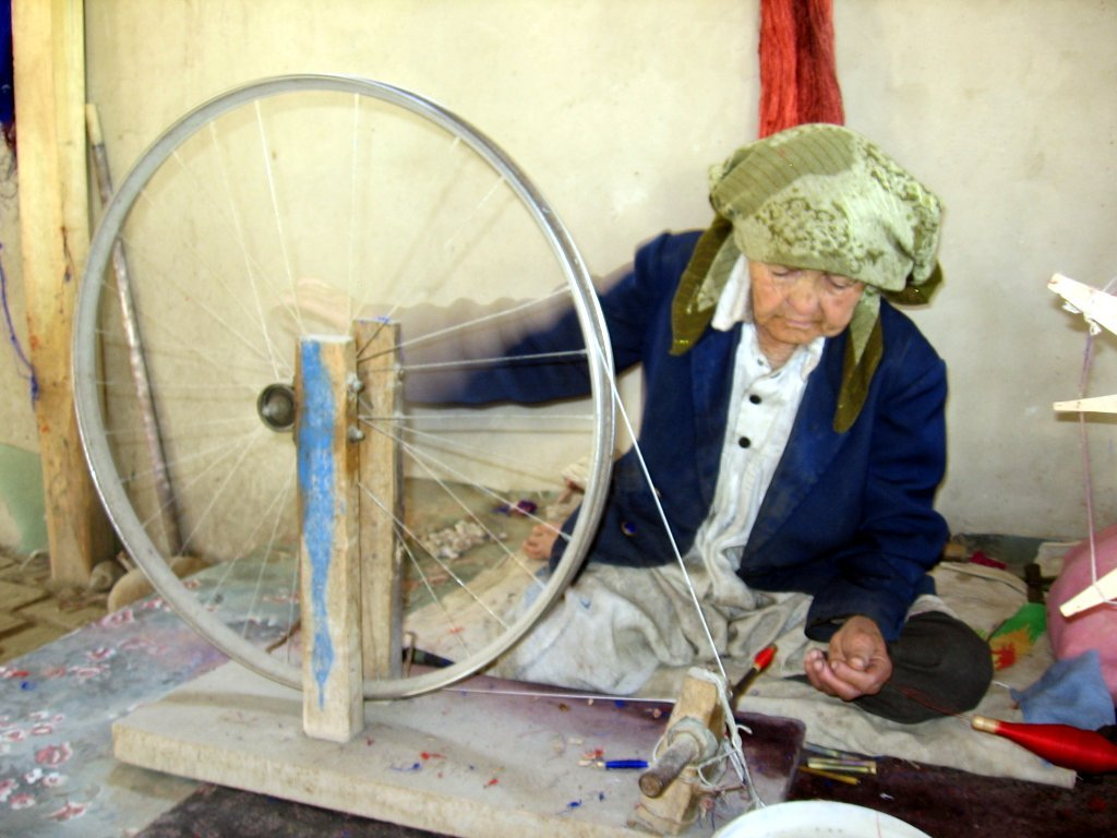 Khotan (Hotan / Hetian) is an oasis city in the Xinjiang Uygur Autonomous Region of the People's Republic of China. Atlas silk factory.